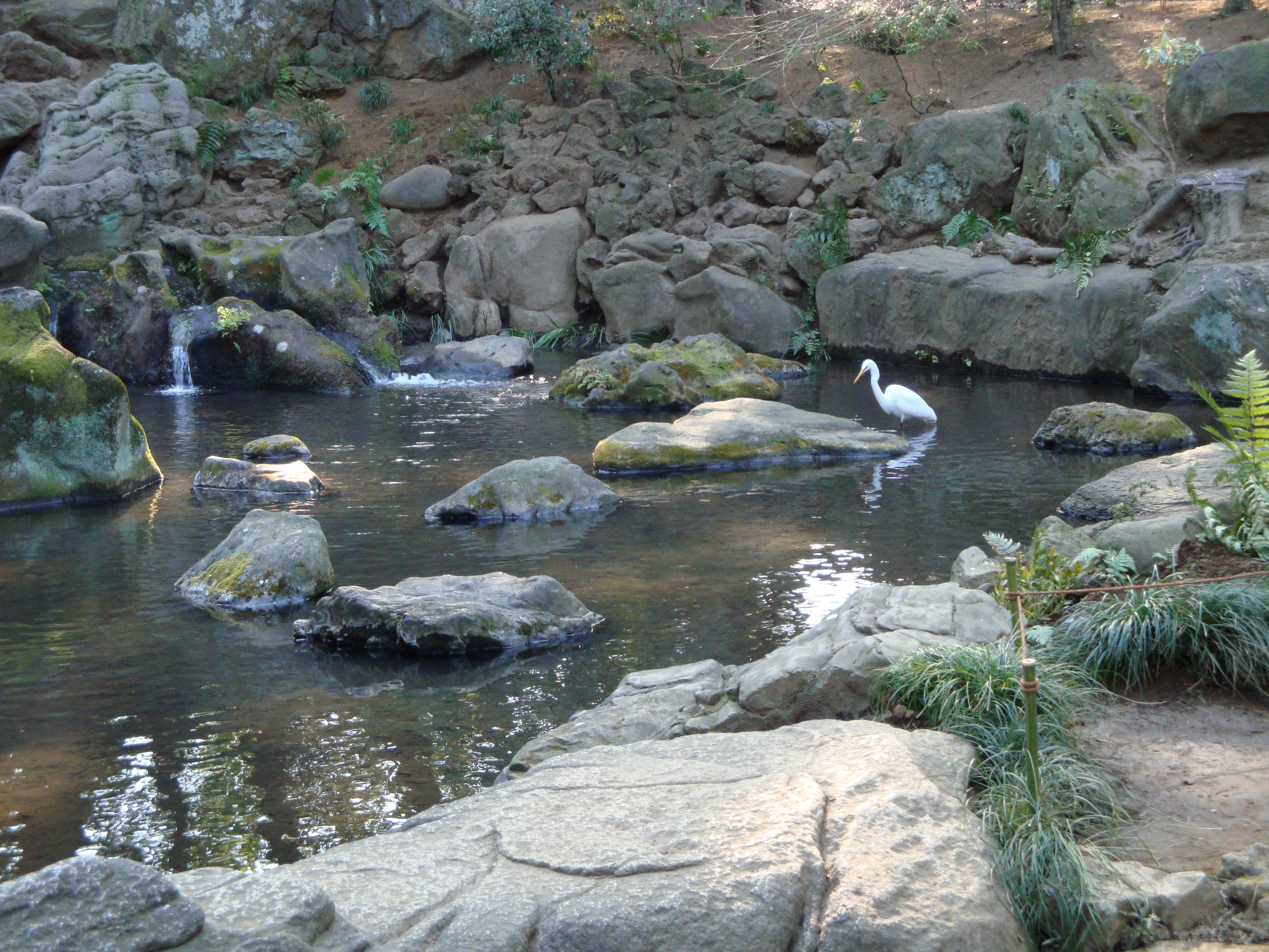 Mizuwakeishi in Rikugien